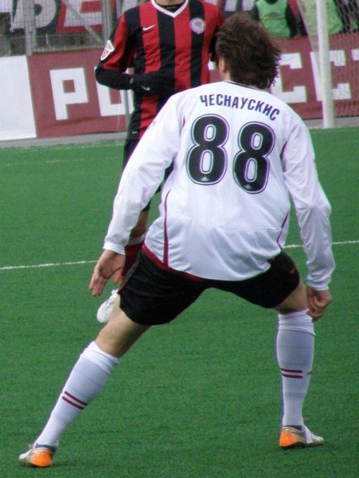 Edgaras Česnauskis in action for FC Moscow